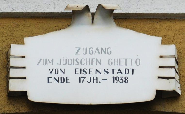 Eisenstadt - ex ghetto.